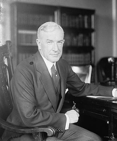 Henry P. Fletcher (1873–1959), an American diplomat